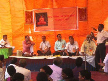 Sarak celebrating Mahavira janam kalyanak